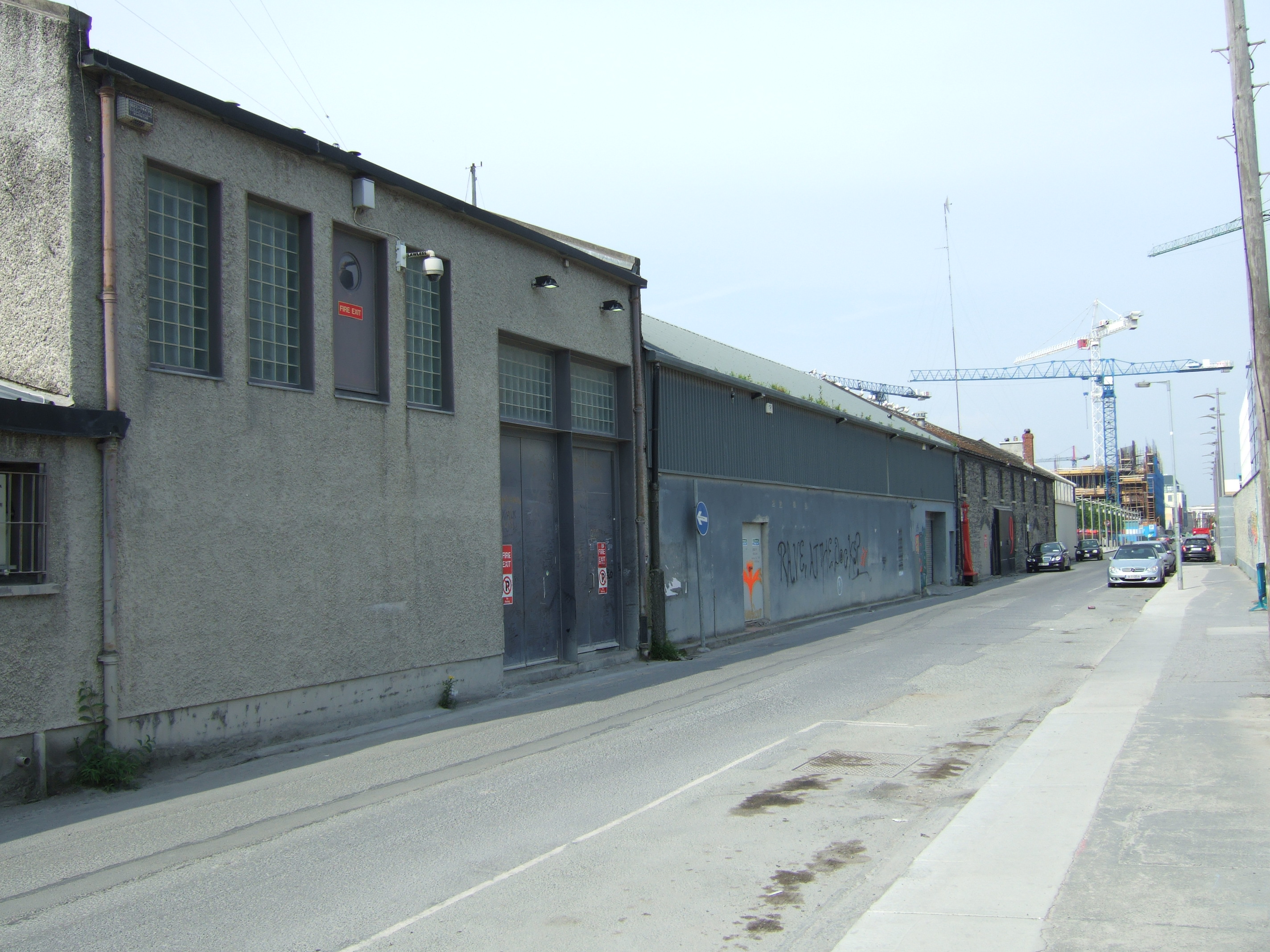 U2 Studio in Dublin Hanover Quay Studios